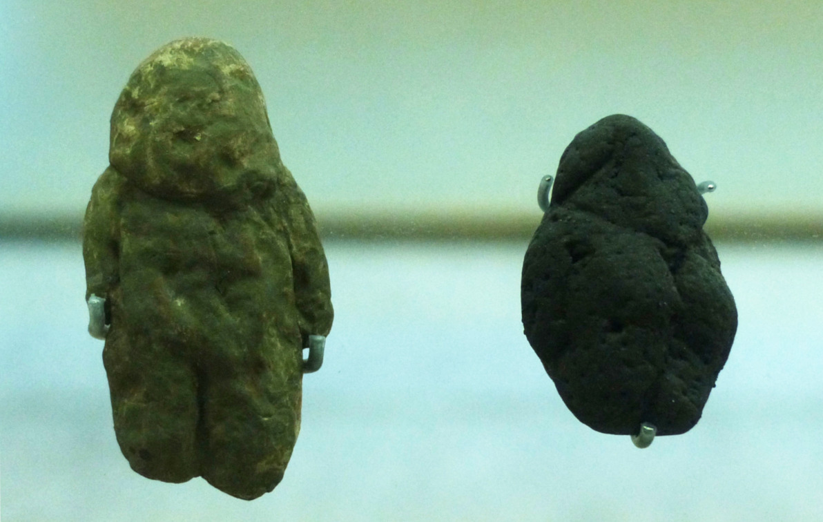 Replicas of the Tan Tan and Berekhat Ram pebbles, suggested as Lower Paleolithic "Venus figurines". Exhibit in the Museum of Human Evolution in Burgos, Spain.